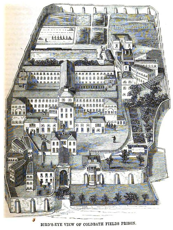 Birds eye view of Coldbath Fields Prison in The criminal prisons of London, and scenes of prison life (1864) by Henry Mayhew (d. 1887) & John Binny. The main felons block is on the left, the vagrants block was the "half cartwheel" bottom left, the misdemeanants block centre right. More details are on the accompanying plan File:coldbath-fields-plan-mayhew-p283.jpg